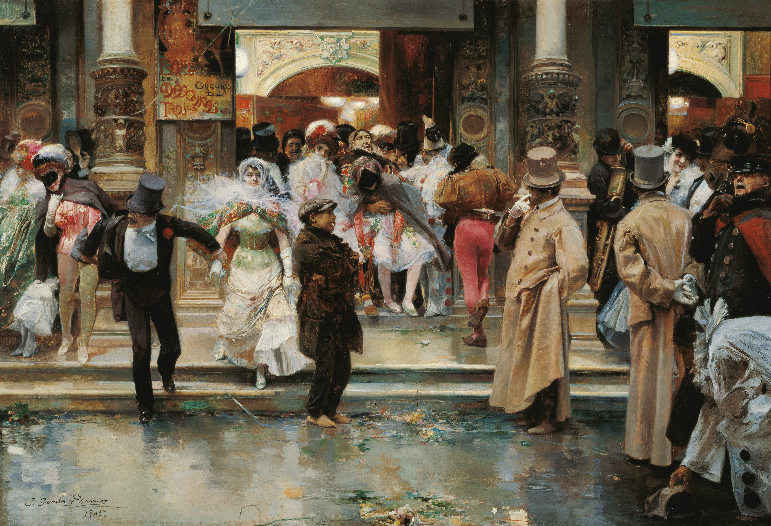 Leaving a Masqued Ball.